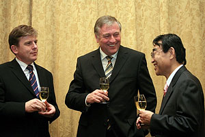 Miloslav Vlček, Speaker of the Chamber of Deputies, and Mirek Topolánek, Prime Minister, attended the Reception to Celebrate the Emperor's Birthday with Hideaki Kumazawa, Ambassador to the Czech Republic, at Hilton Prague in Prague City on December 7, 2006.